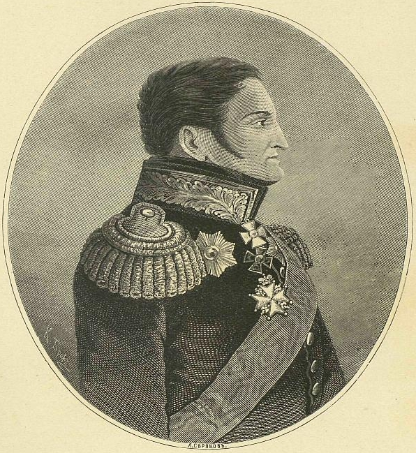 Bulatov, Mikhail Leontyevich